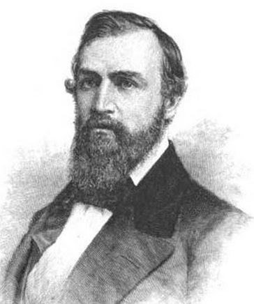 Marcus J. Parrott (Kansas Congressman)